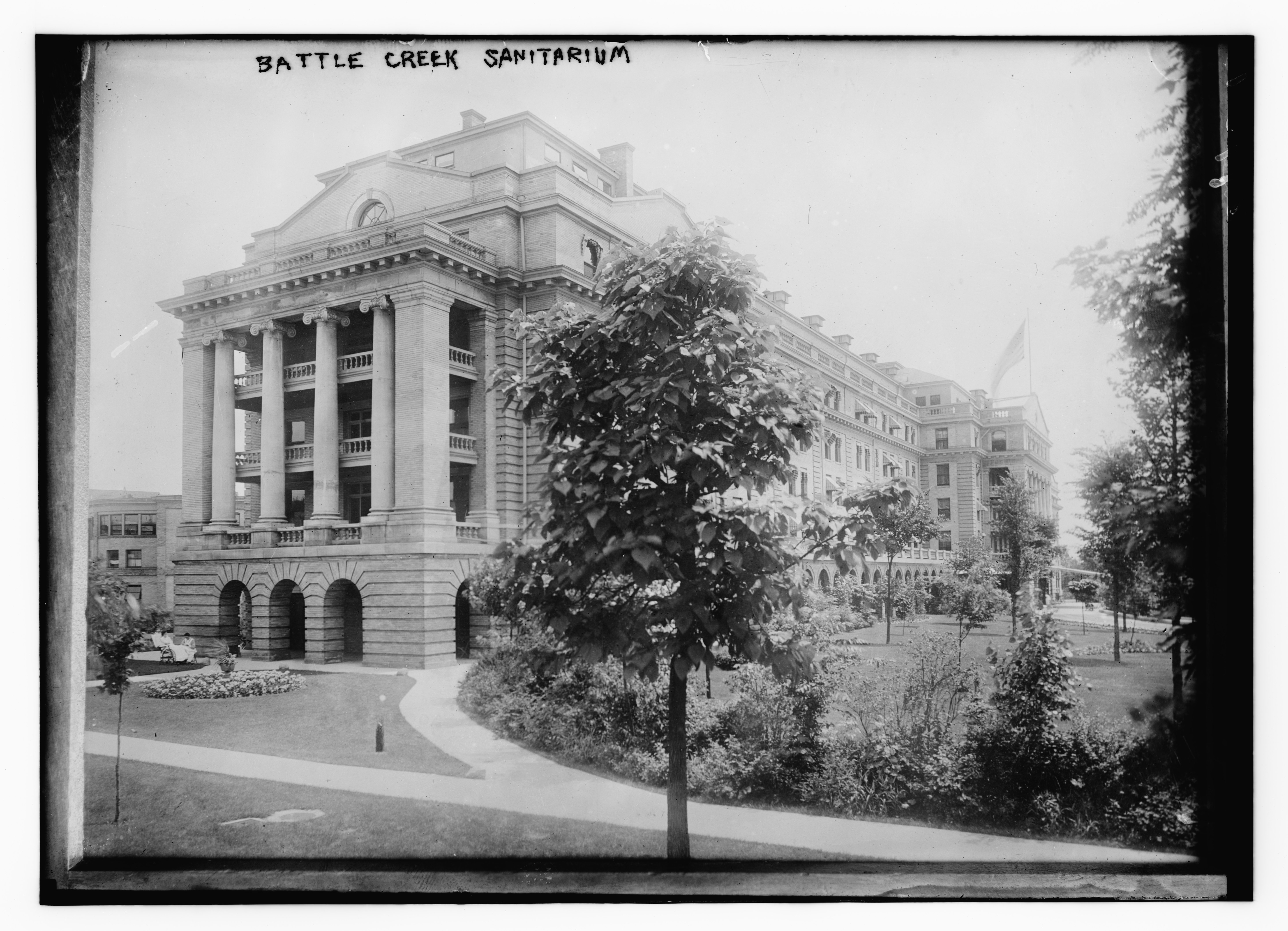 Title: Battle Creek Sanitarium Abstract/medium: 1 negative : glass ; 5 x 7 in. or smaller.